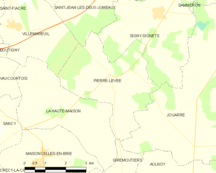 Map of French municipality Pierre-Levée